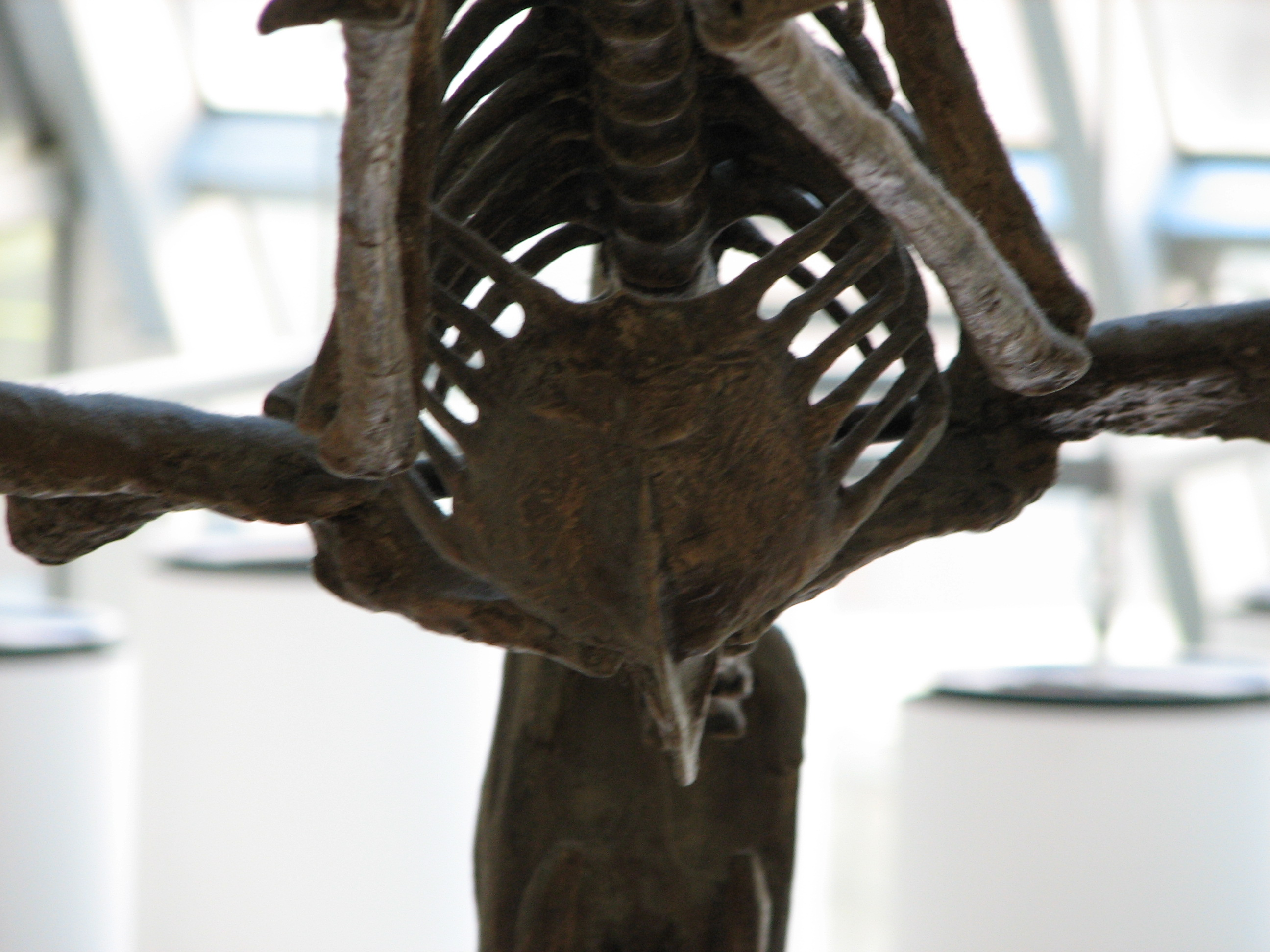 Pteranodon skeleton (view from underneath breastbone) on display at the University of California, Berkeley in VLSB